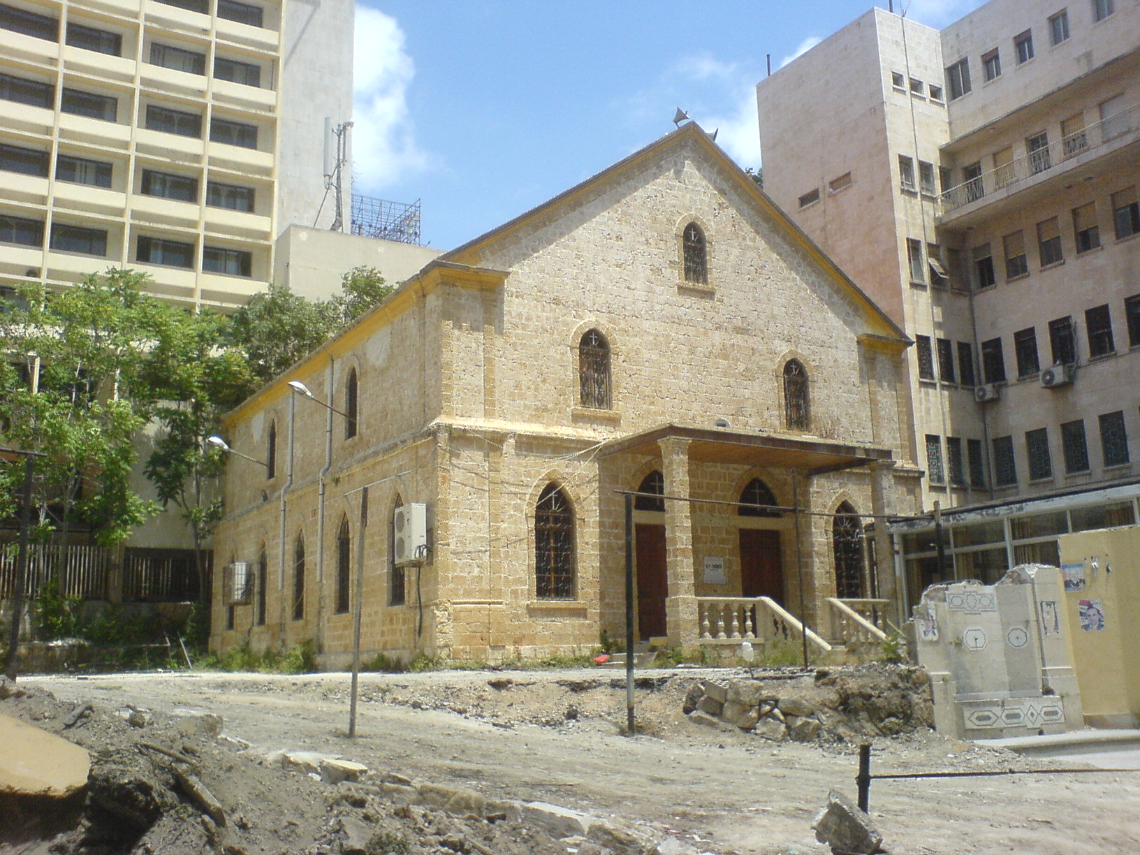 Evangelical Church in the city of Latakia